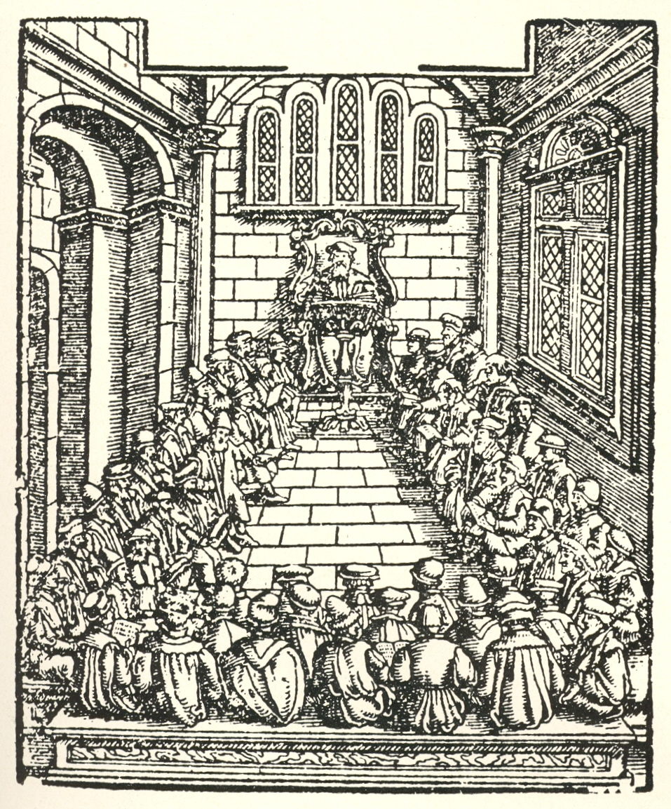 Hohe Schul zu Heydelberg. University of Heidelberg, woodcut from the Cosmographia of Sebastian Münster, 1544.